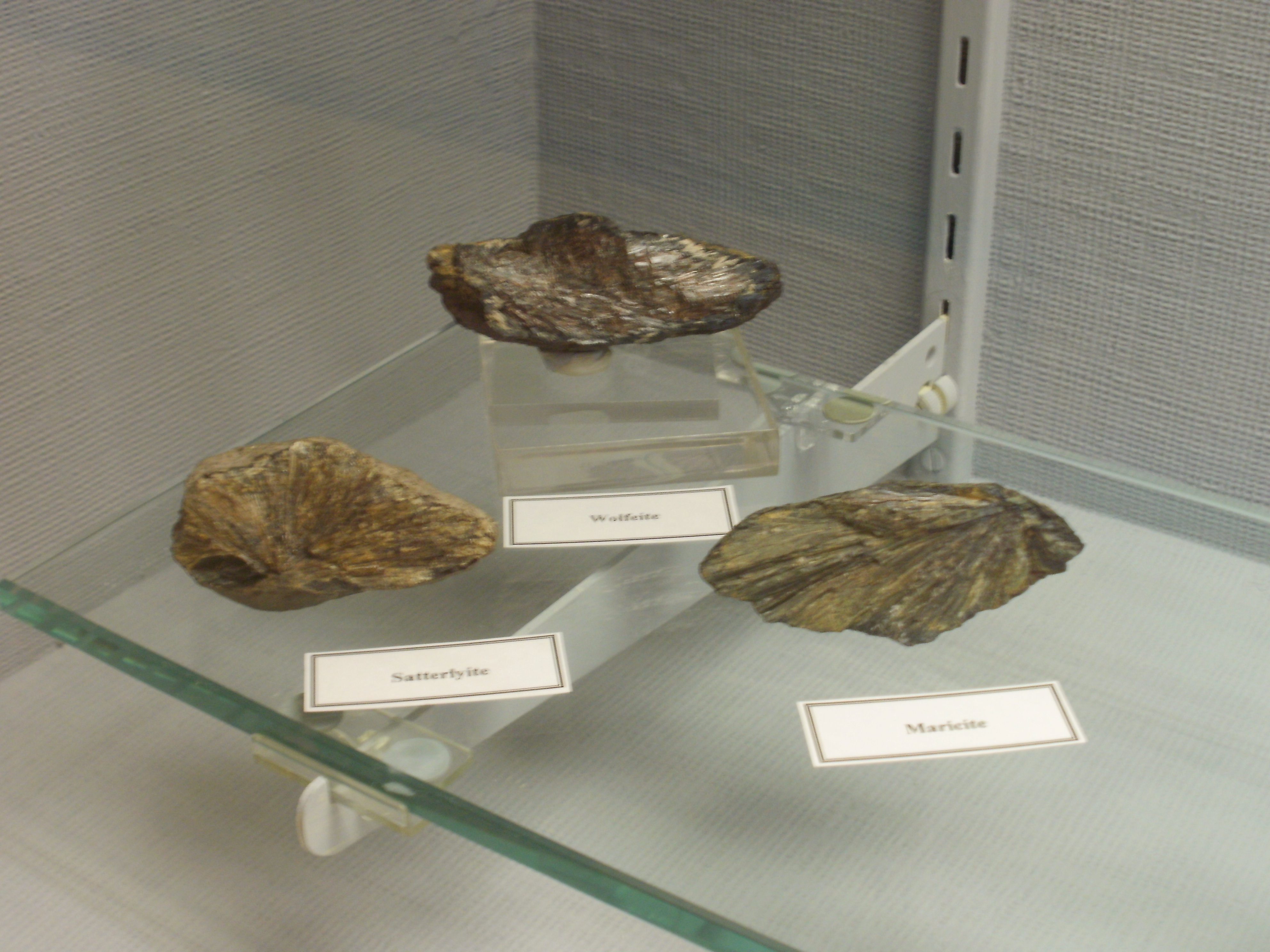 Satterlyite (left), wolfeite (top), and marićite (right) from the Rapid Creek area of northern Yukon, Canada. Held in the A. E. Seaman Mineral Museum.